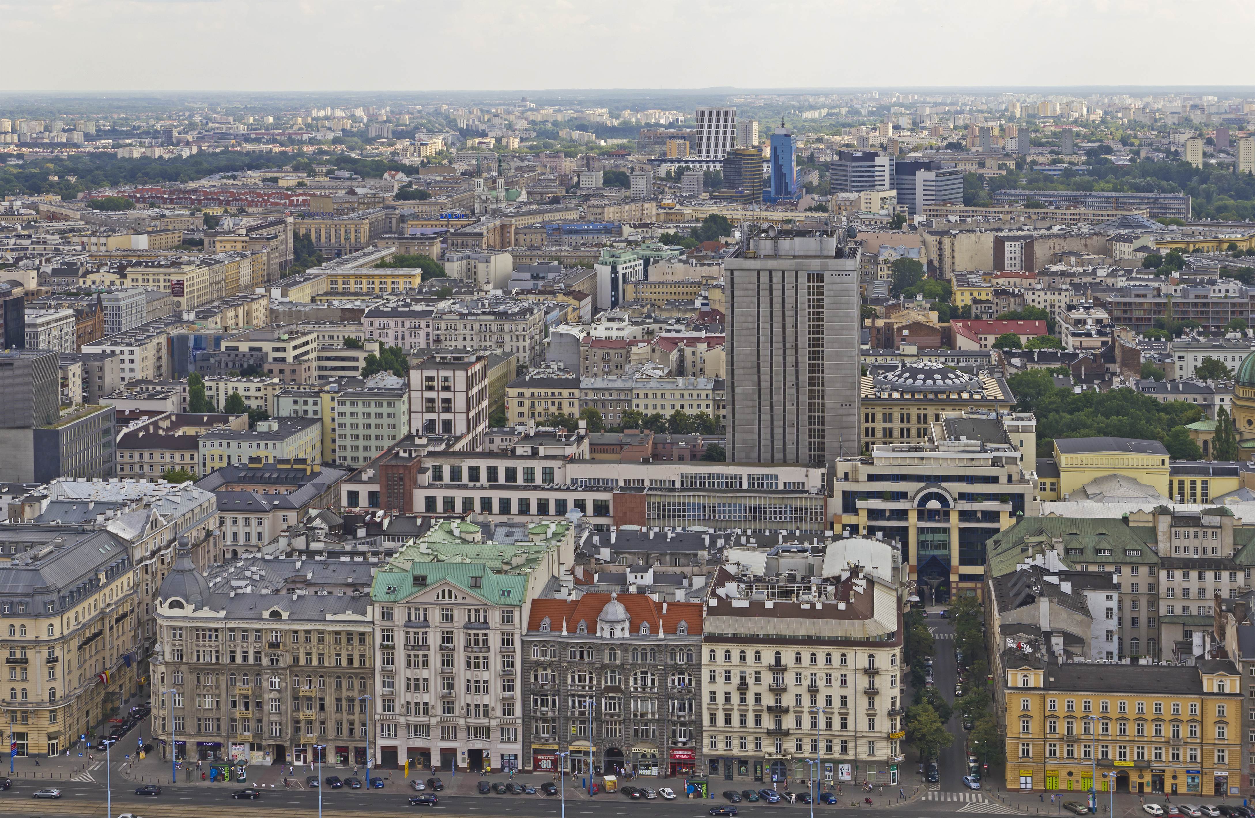 View from the viewing desk of the Palace of Culture and Science in Warsaw (Poland)